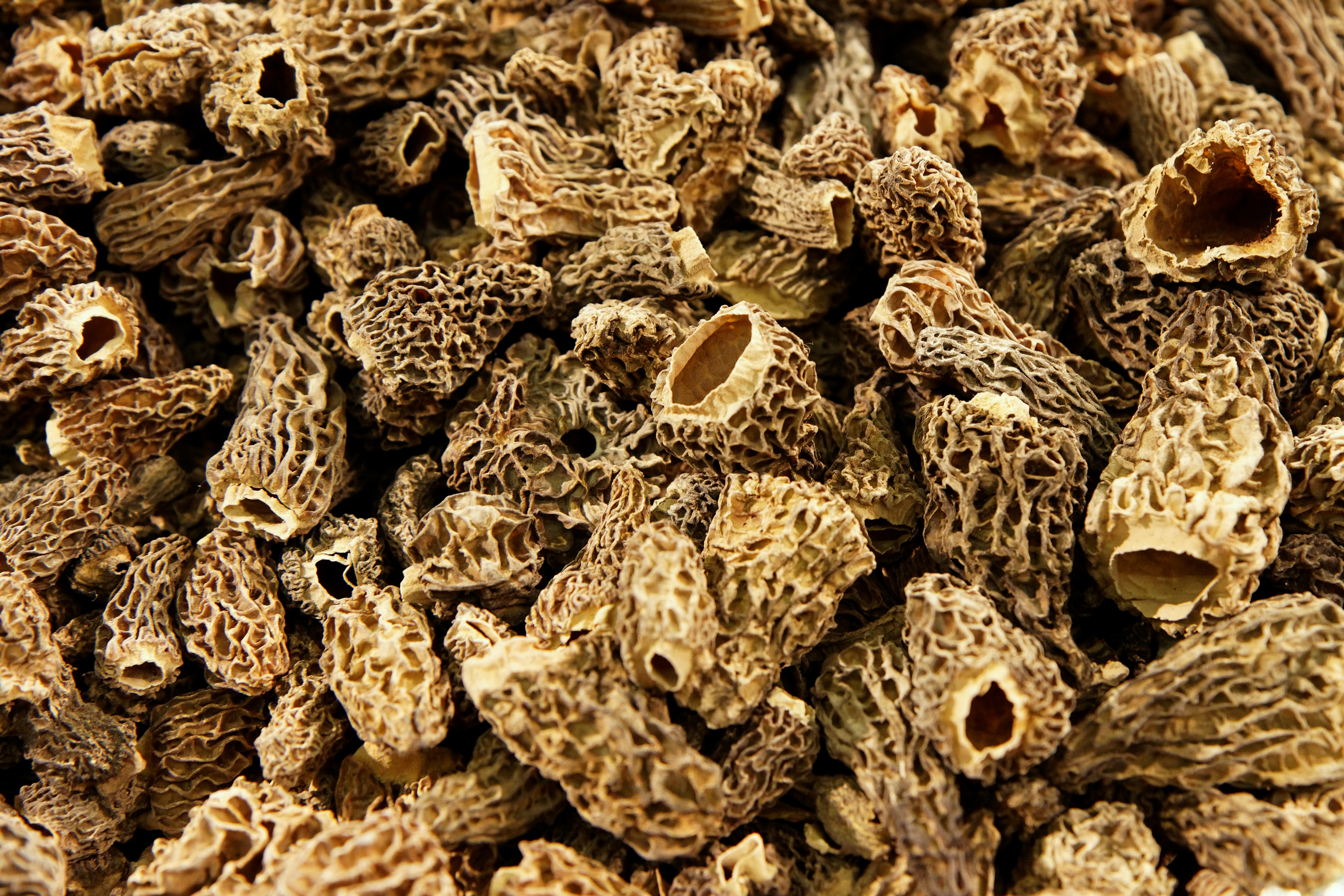 Dried morels